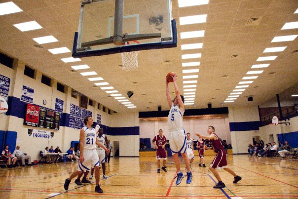 A picture from a Georgia-Cumberland Academy home basketball game.